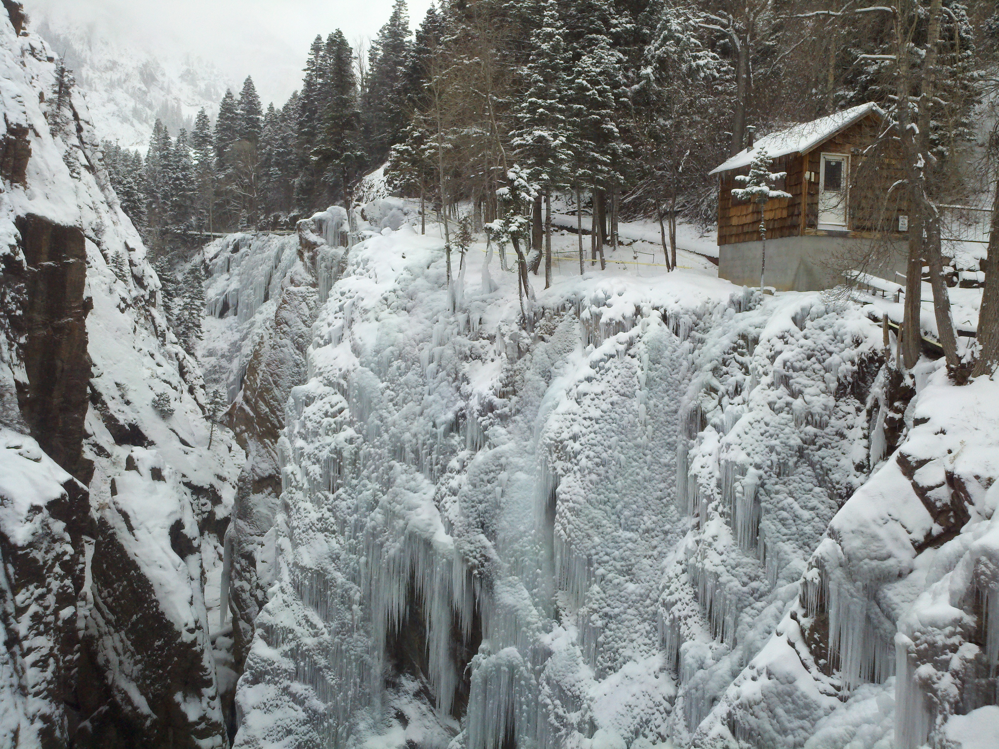 Icicles in Uncomphagre Gorge (Ouray, CO).